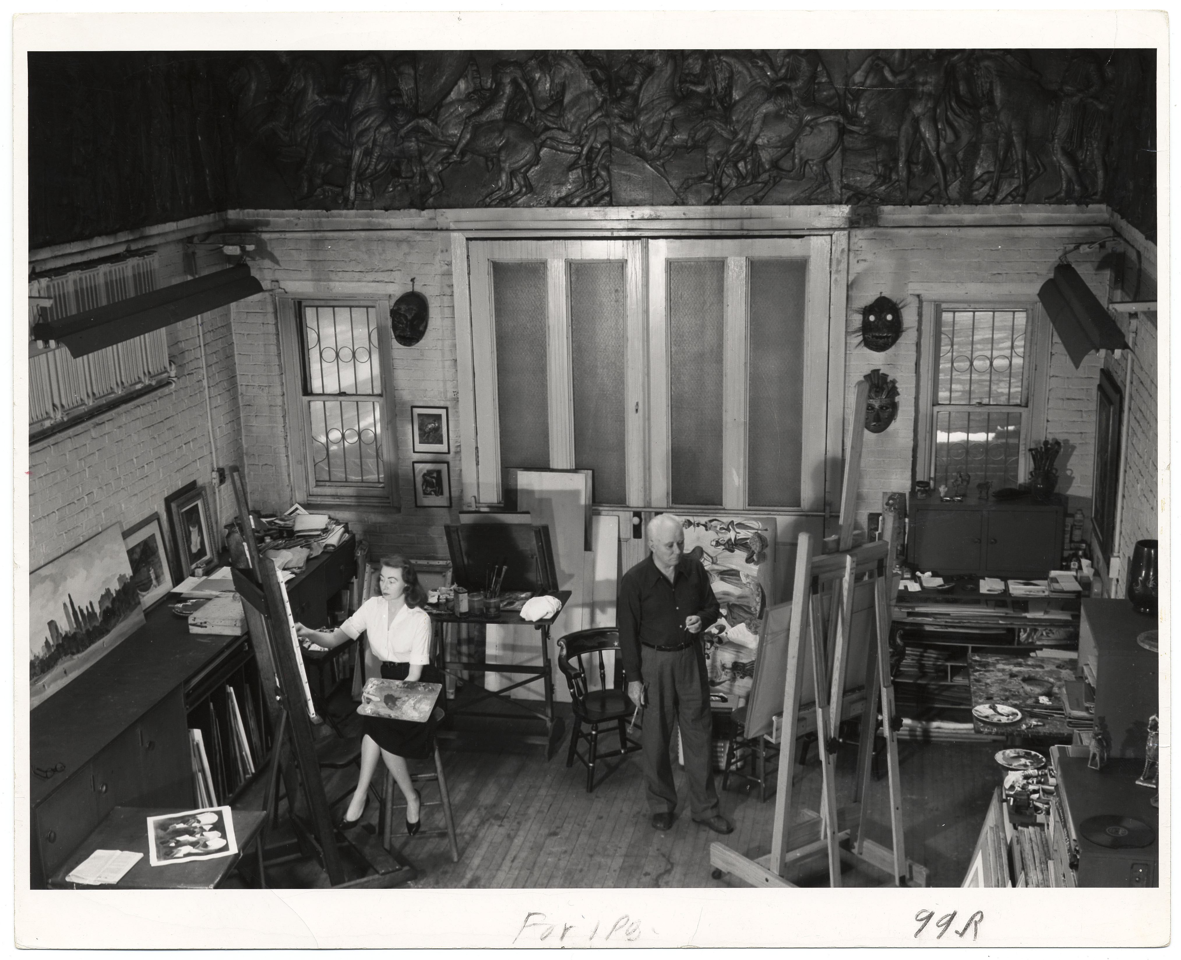 Dehn in his studio with his wife Virginia, stamped on reverse compliments of John D. Schiff, please credit. Published in: Archives of American Art Journal v. 4, no. 4, p. 15